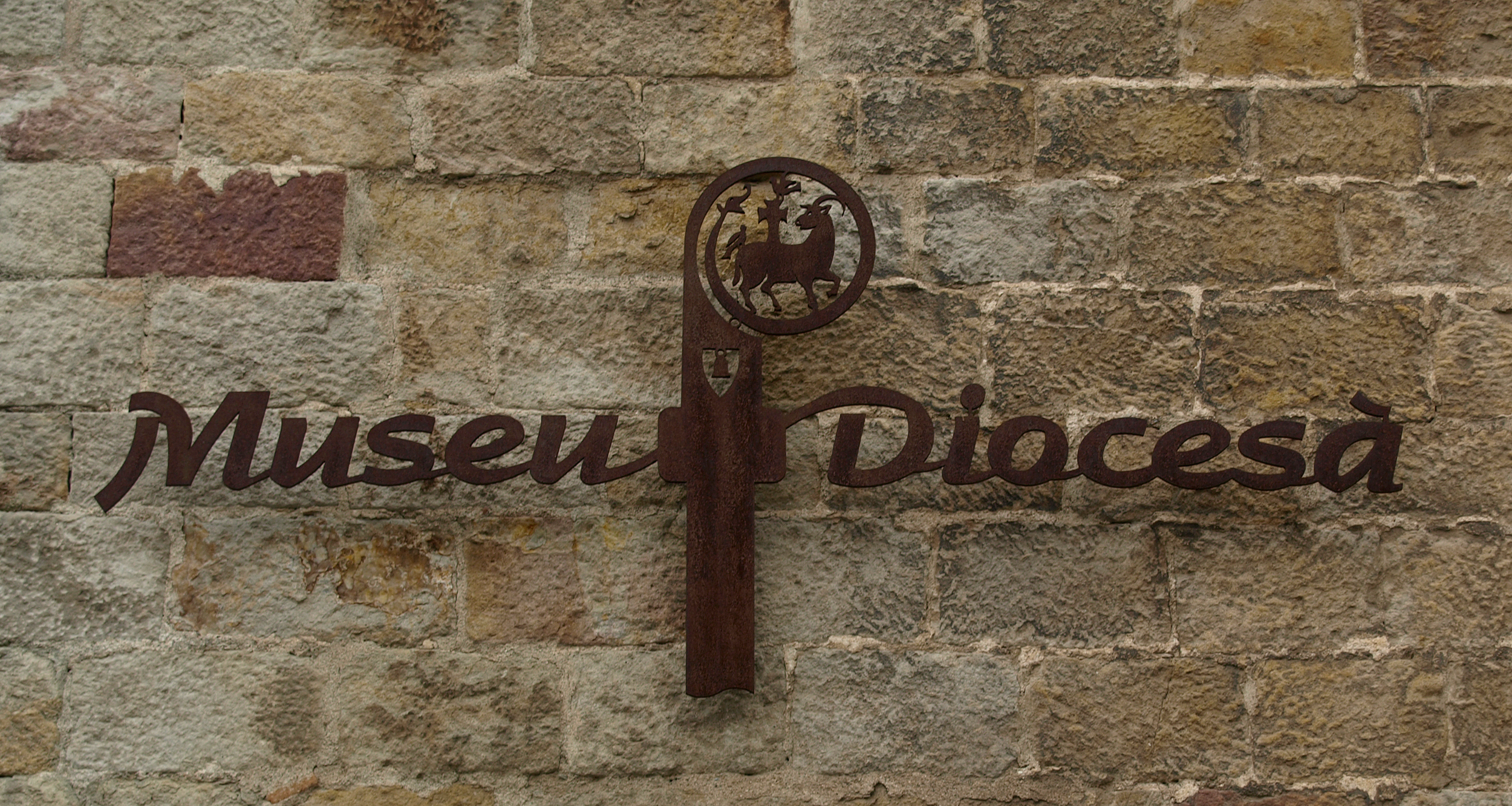 Diocesan Museum of Barcelona (Spain)